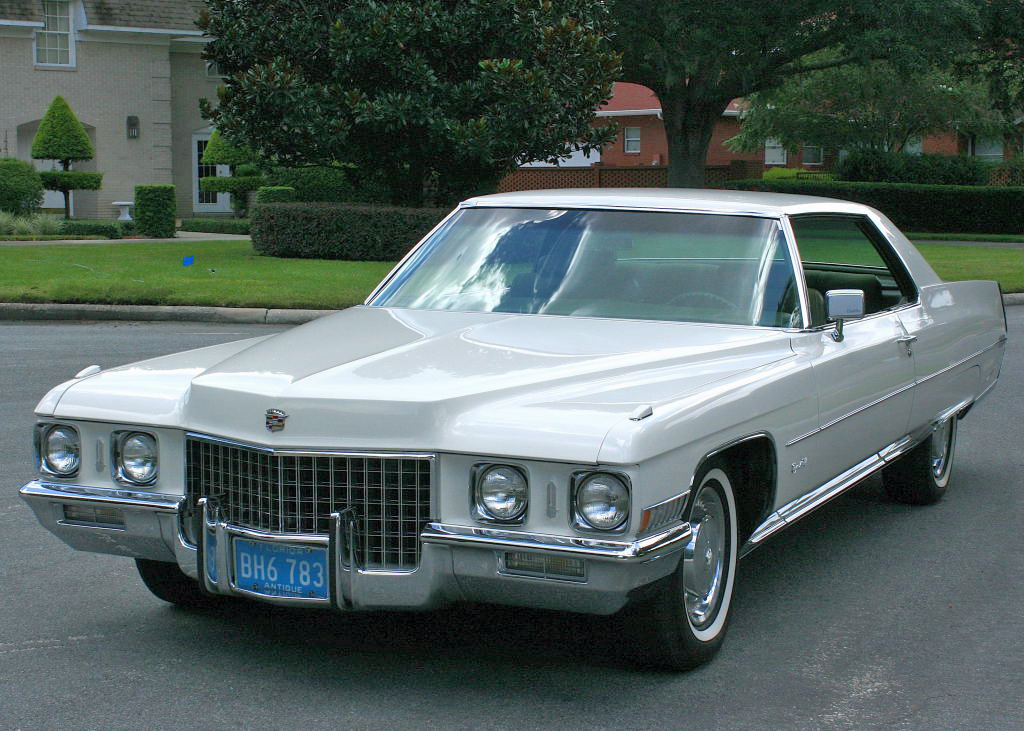 Sold new in 1971 by Barrett Cadillac of Youngstown, Ohio